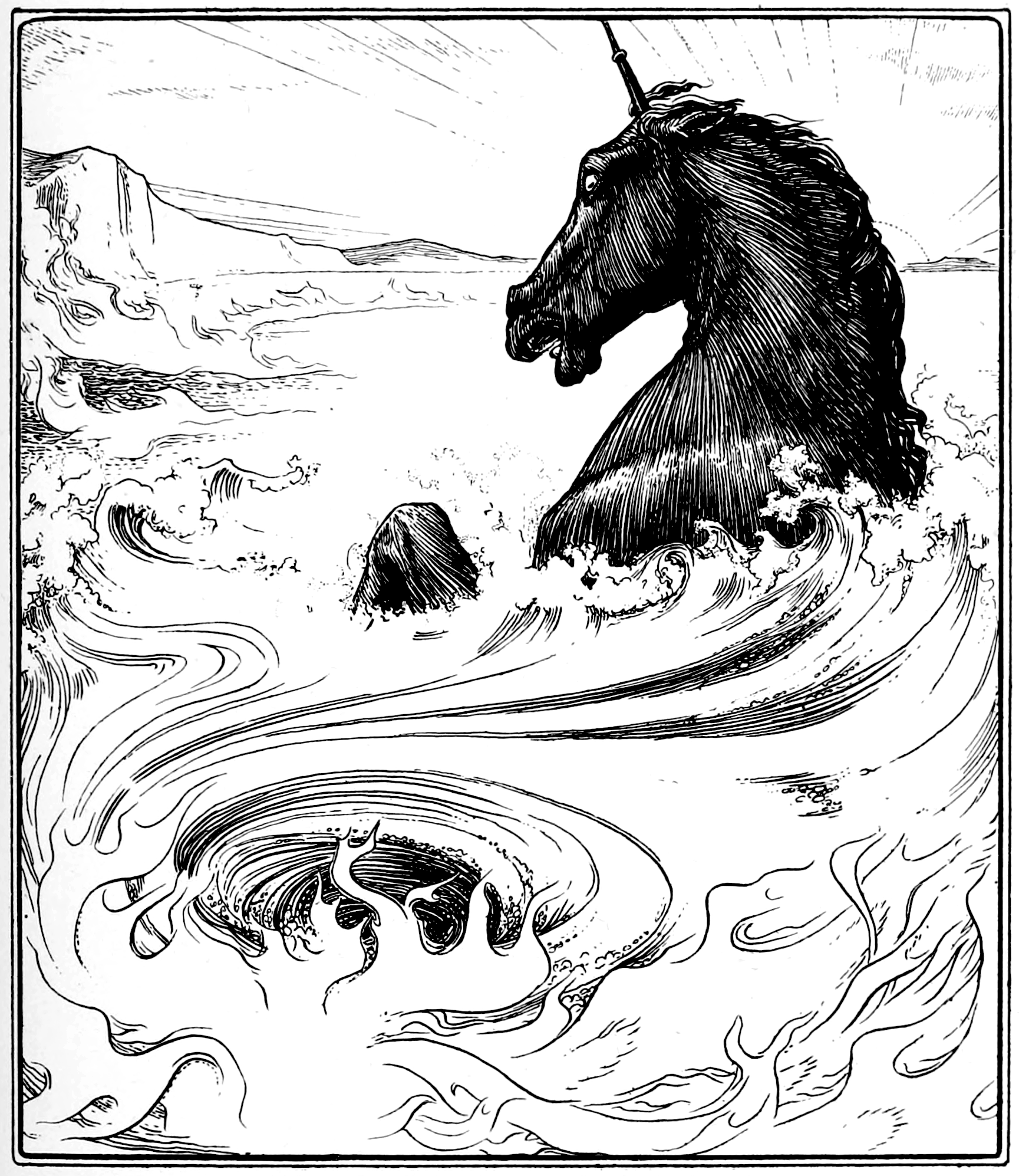 Scan illustration on page of book in a series of fairy tales.